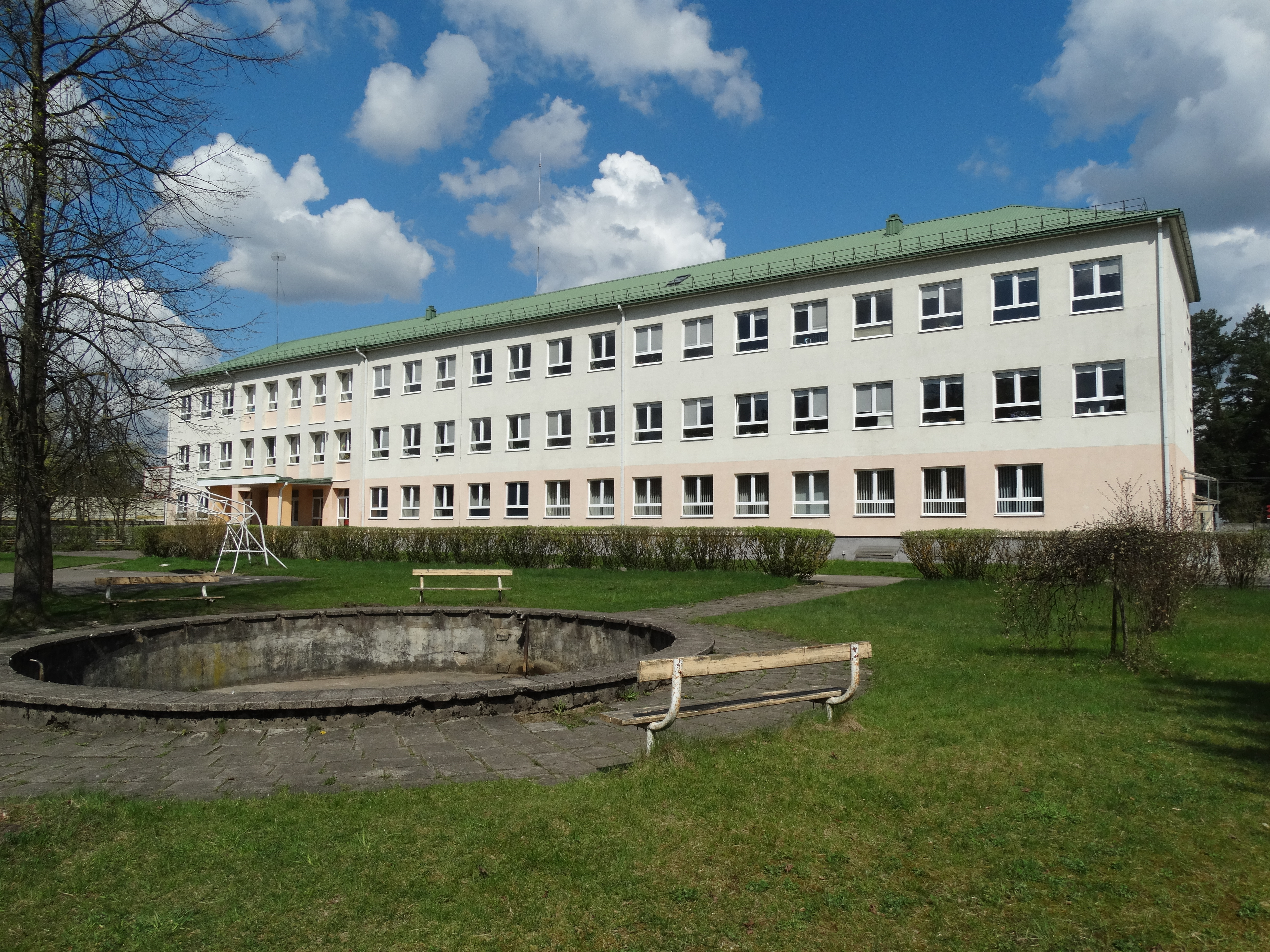 Šilas Gymnasium in Juodšiliai, Vilnius District, Lithuania